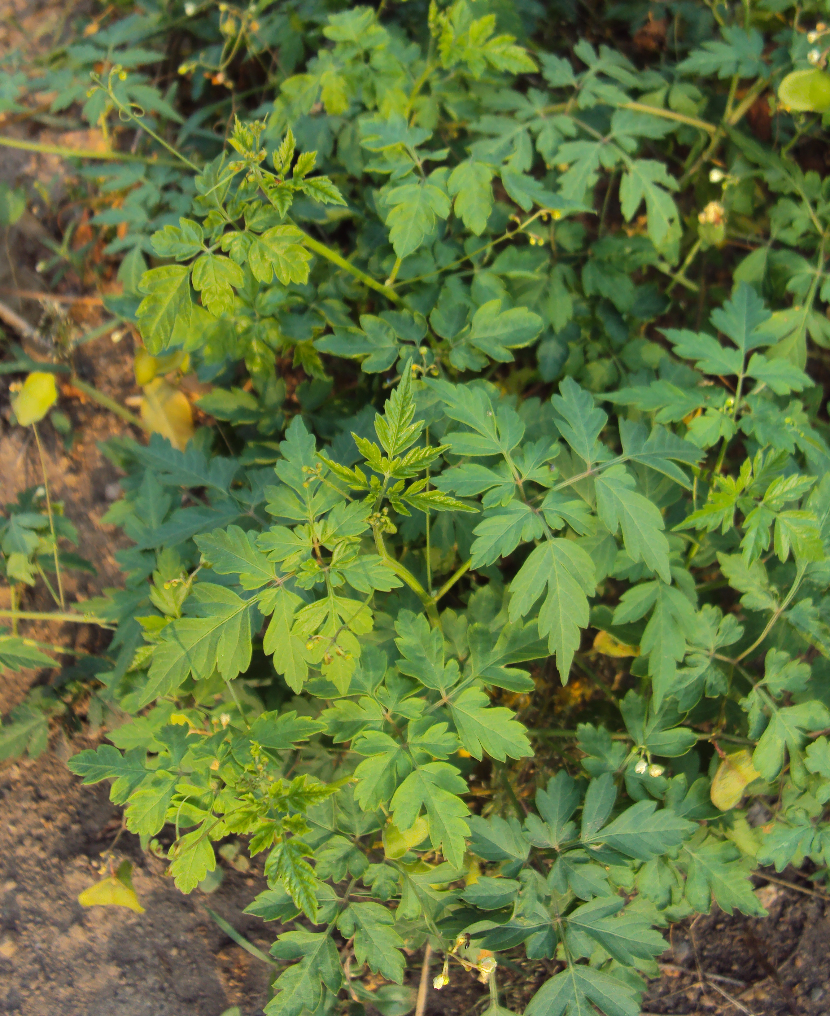 Cardiospermum helicacabum - ഉഴിഞ്ഞ